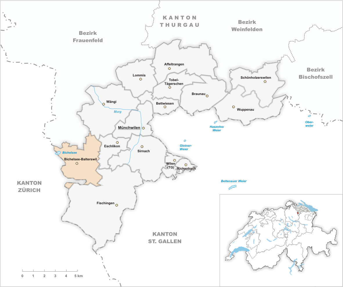 Municipality Bichelsee-Balterswil